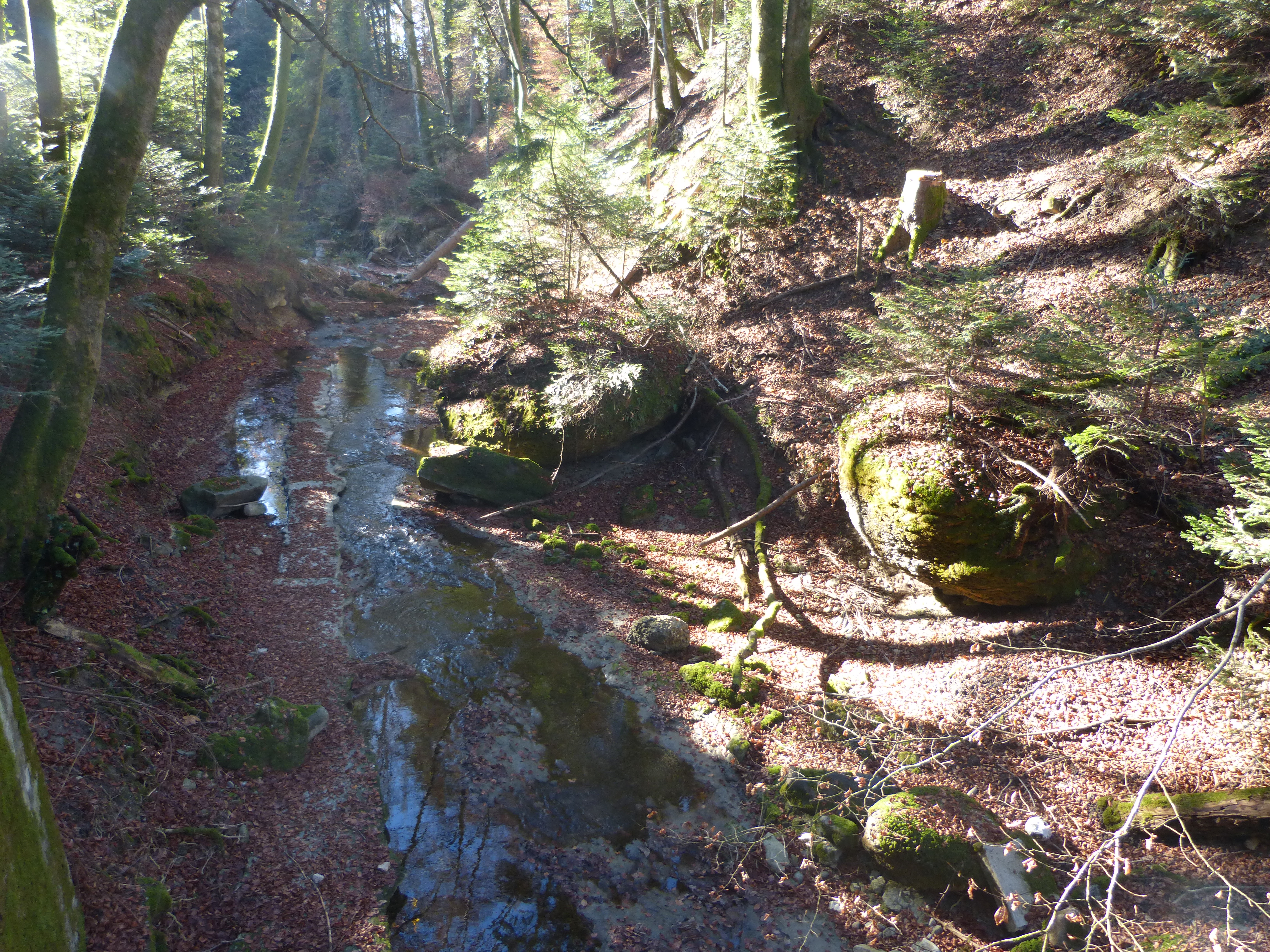 La Chandelar marking the border between the municipalities of Pully (on the left) and Lausanne (on the right) under the locality named Le Crêt in the hamlet of Montblesson.